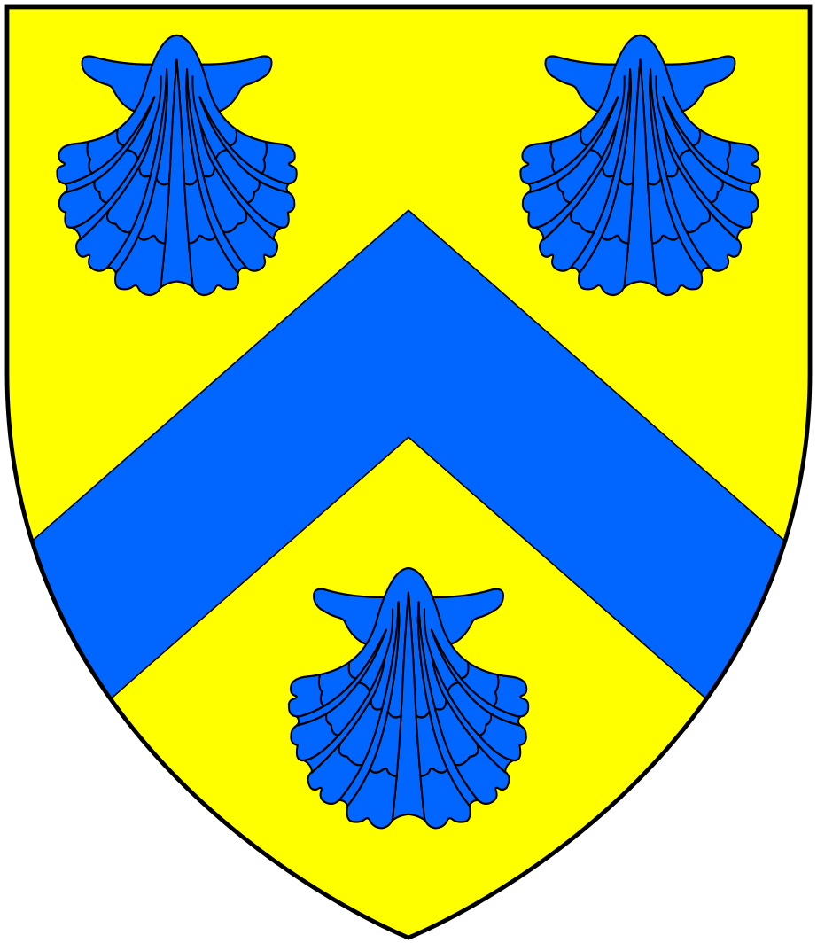 Arms of Gay of Goldworthy and Frithelstock, Devon: Or, a chevron between three escallops azure. As seen on monument of Richard Beaple (d.1643) in Barnstaple Church, in Monkleigh parish church, in Newton St Cyres parish church, etc. (Vivian, Lt.Col. J.L., (Ed.) The Visitation of the County of Devon: Comprising the Heralds' Visitations of 1531, 1564 & 1620, Exeter, 1895, p.392, footnote 12). Also arms of Trenchard of Collacombe, Devon (Pole, Sir William (d.1635), Collections Towards a Description of the County of Devon, Sir John-William de la Pole (ed.), London, 1791, p.505)